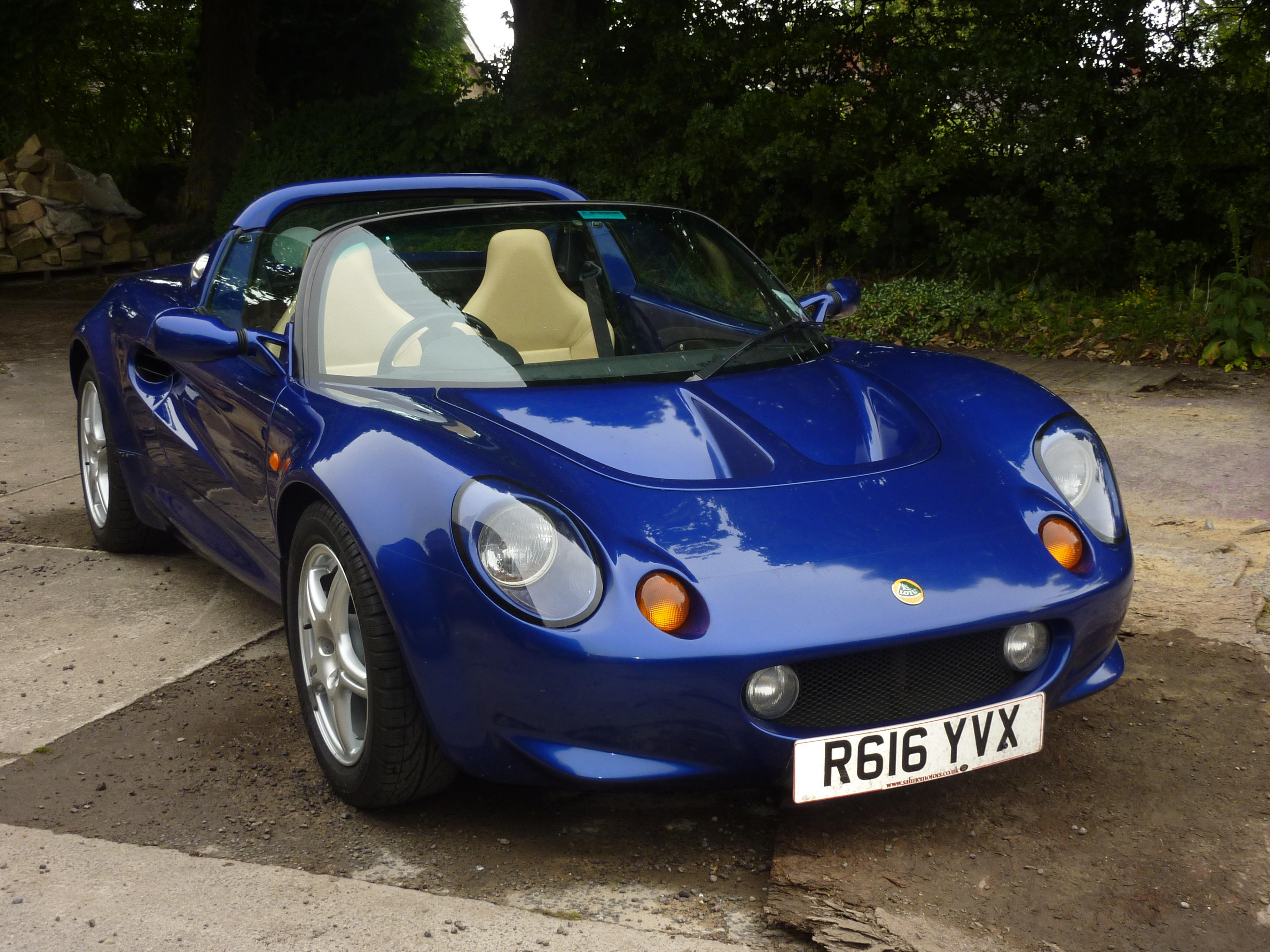 Lovely Azure Blue S1 Elise.